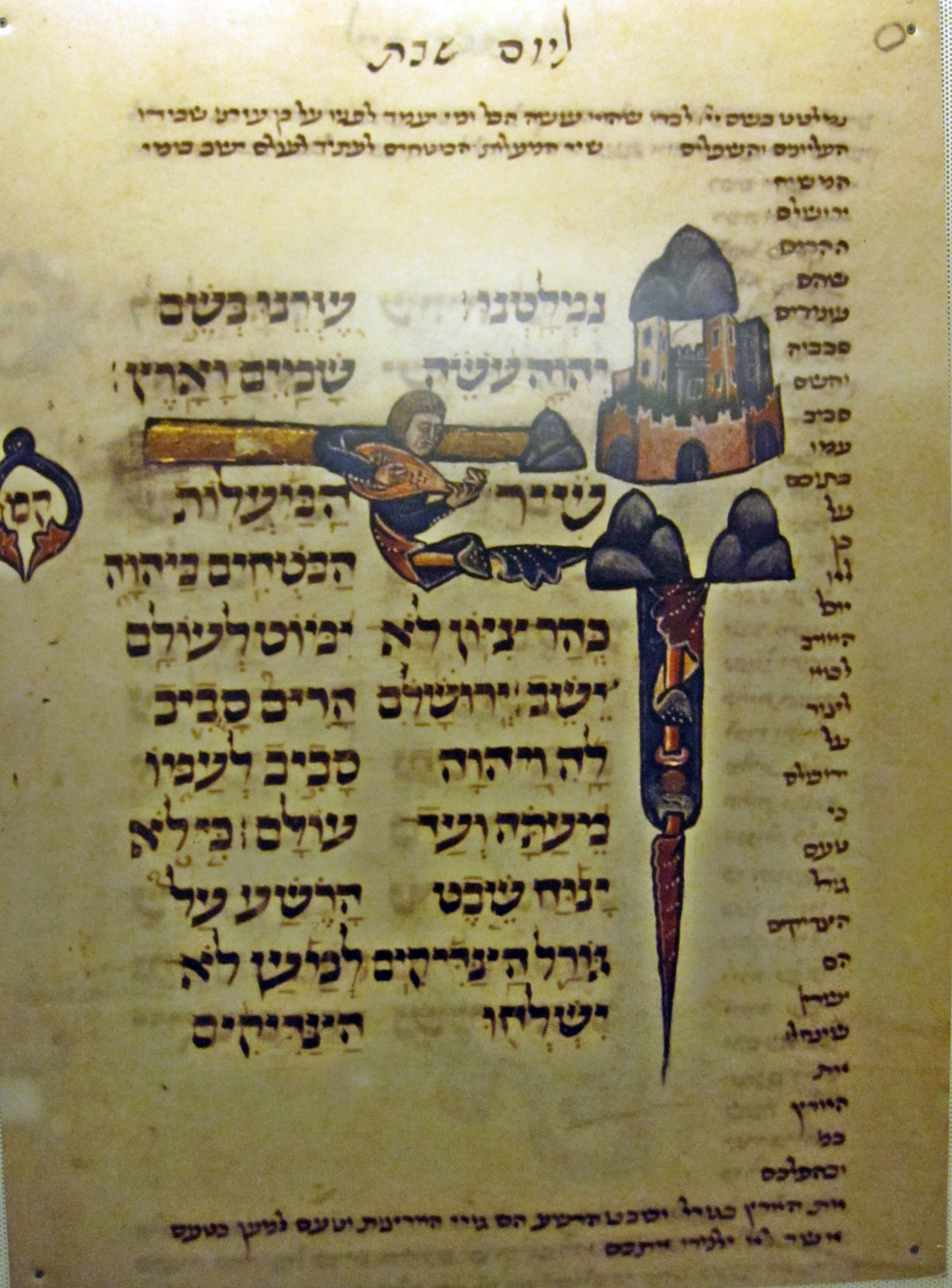 This is a photo of an exhibit at the Diaspora Museum, Tel Aviv - Beit Hatefutsot. The Note says: A Song of Ascents, They that trust in the lord are as Mount Zion, which cannot be moved. (psalm 125:1) 13th century manuscript on parchment, France palatine library, parma